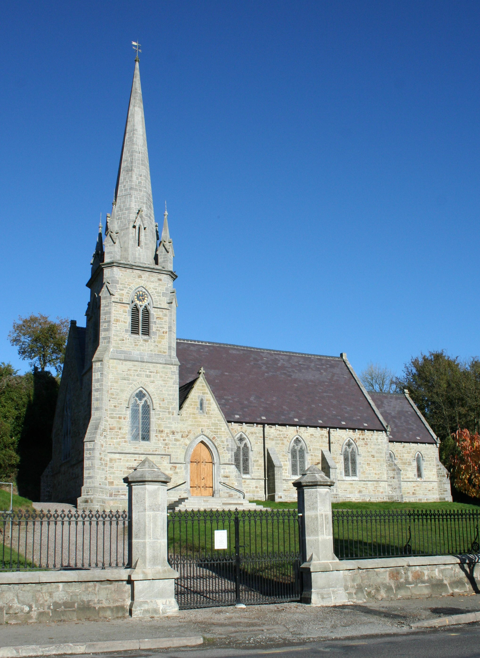 Church of Ireland Innishannon, County Cork Credit: A Peter Clarke image